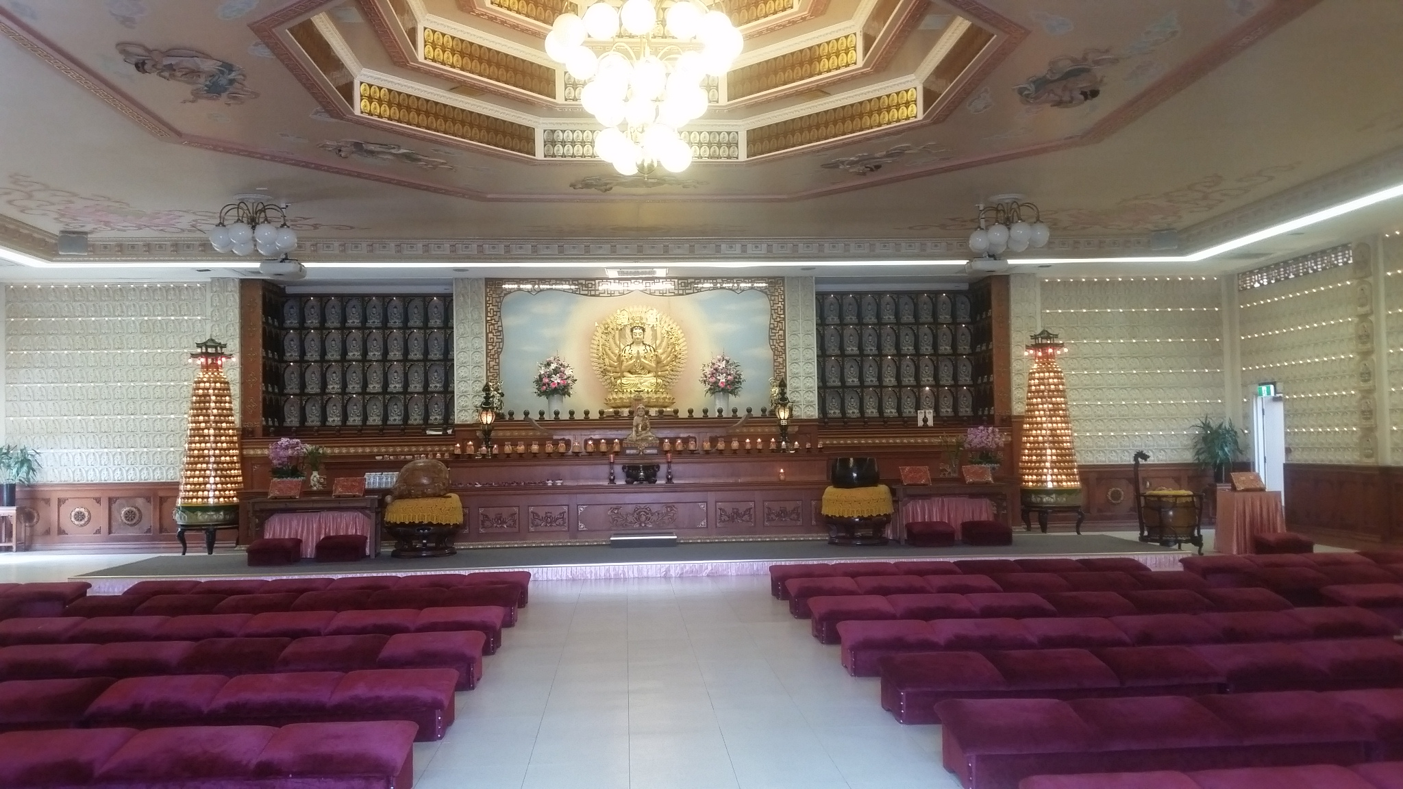 Chung Tian Meditation Building - BODHISATTVA HALL Dedicated to Avalokitesvara Bodhisattva (Kuan Yin), and the manifestation of compassion within us all.